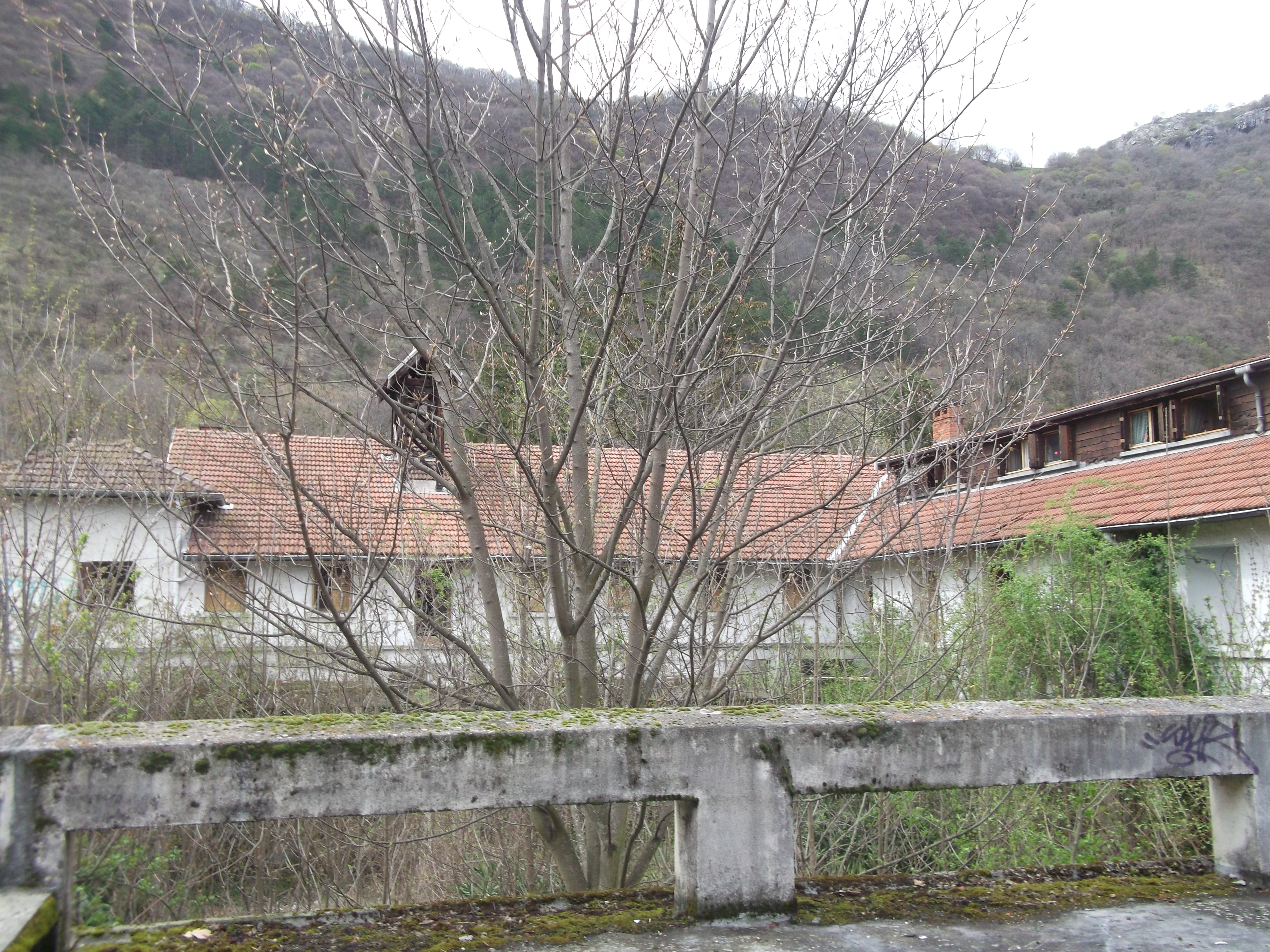 courtyard of the Sainte-Marie Visitation's convent in Vif, France (winter 2019)